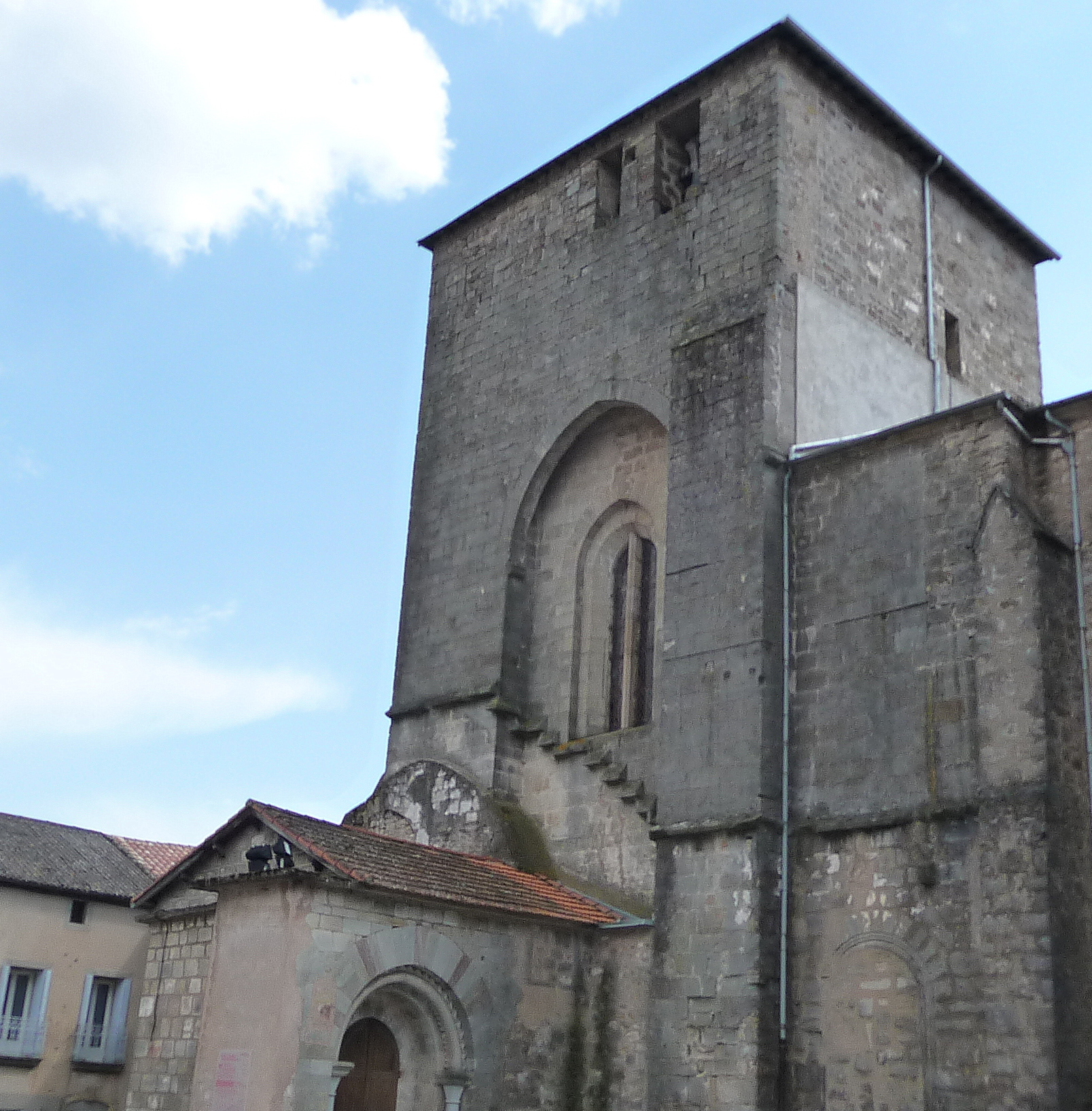 Abbey Church Benedictine